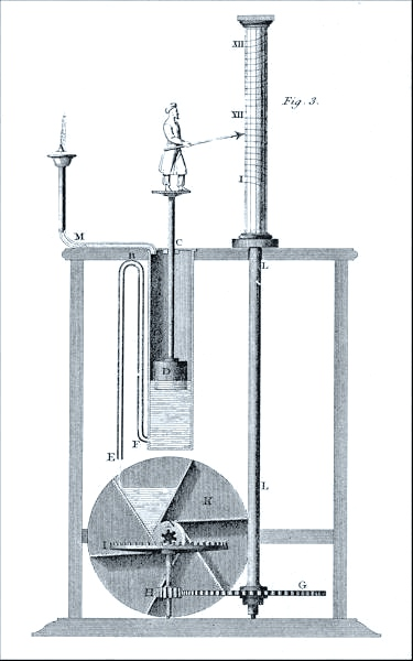 Diagram of a fancy clepsydra, this type being an automaton or self-adjusting machine. Water enters and raises the figure, which points at the current hour for the day. Spillover water operates a series of gears that rotates a cylinder so that hour lengths are appropriate for today's date. The ancient Greeks and Romans had twelve hours from sunrise to sunset; since summer days are longer than winter days, summer hours were longer than winter hours.